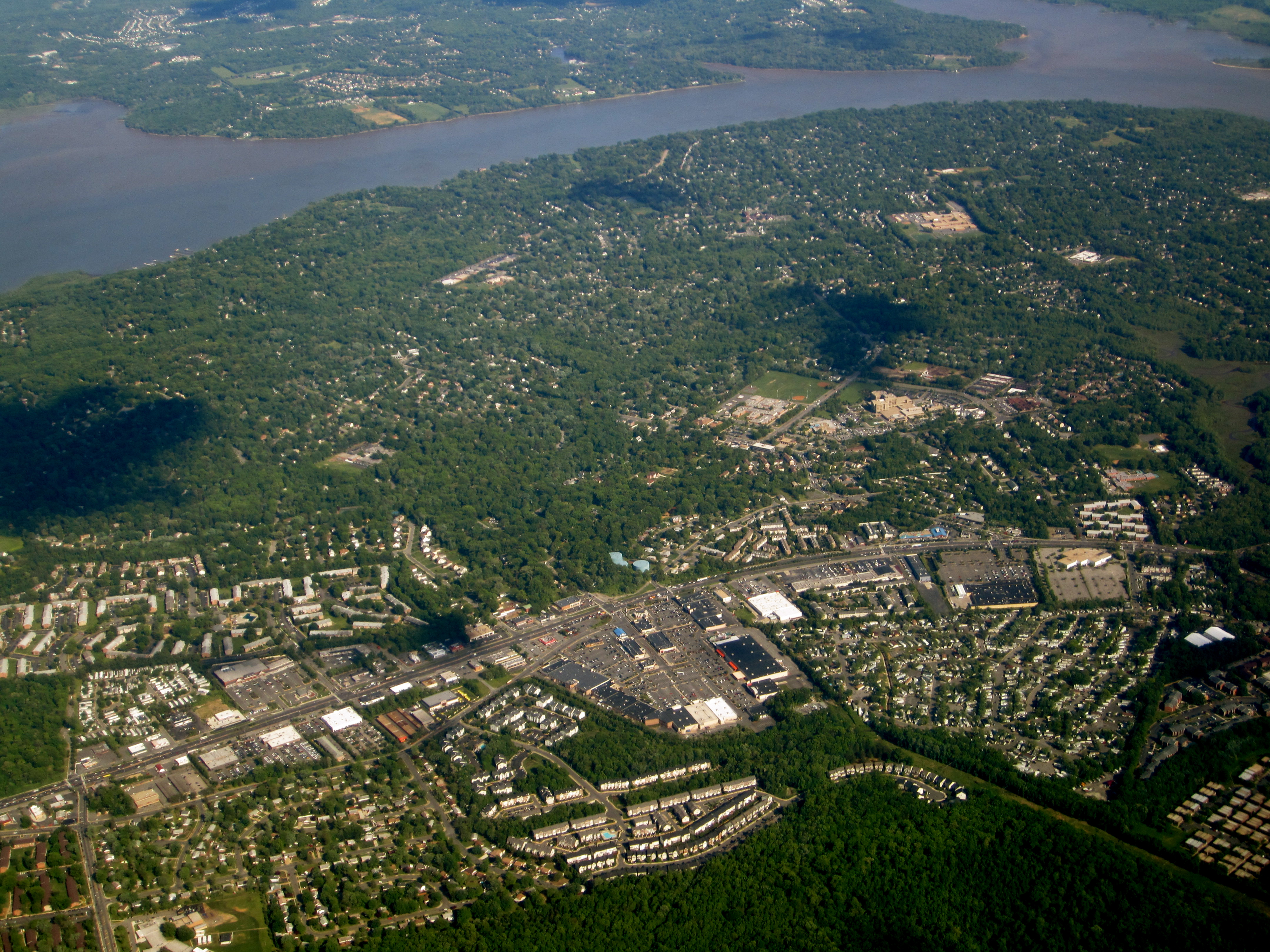 U.S. News` and CNN Money`s "Best Places to Retire" in 2006 and "Best Places to Live" in 2007